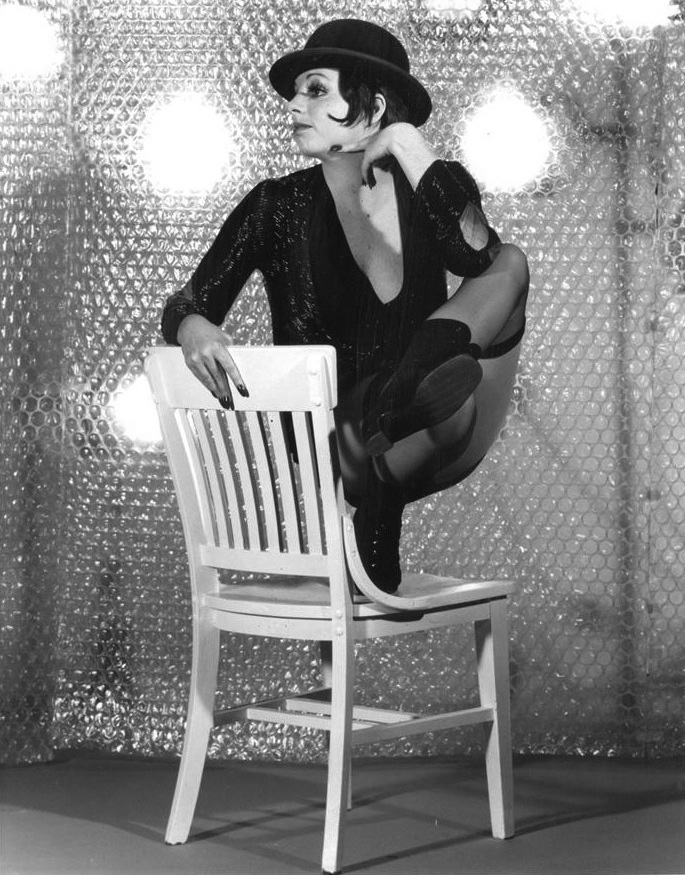 Publicity photo of Liza Minnelli from her 1973 Liza With a Z television special.